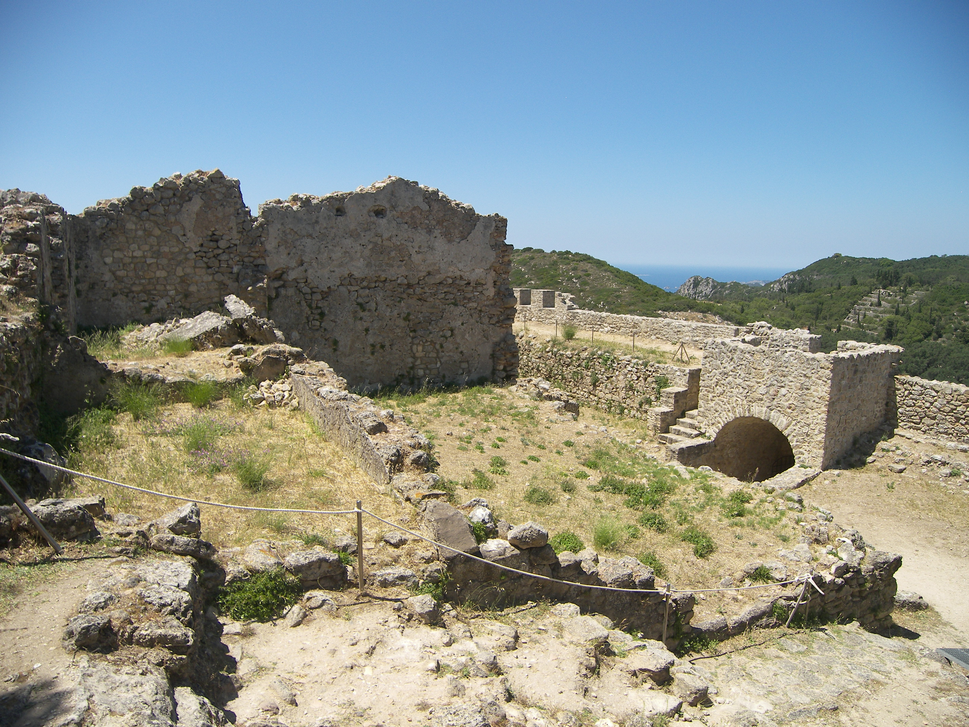 Old barracks at Corfu Angelokastro